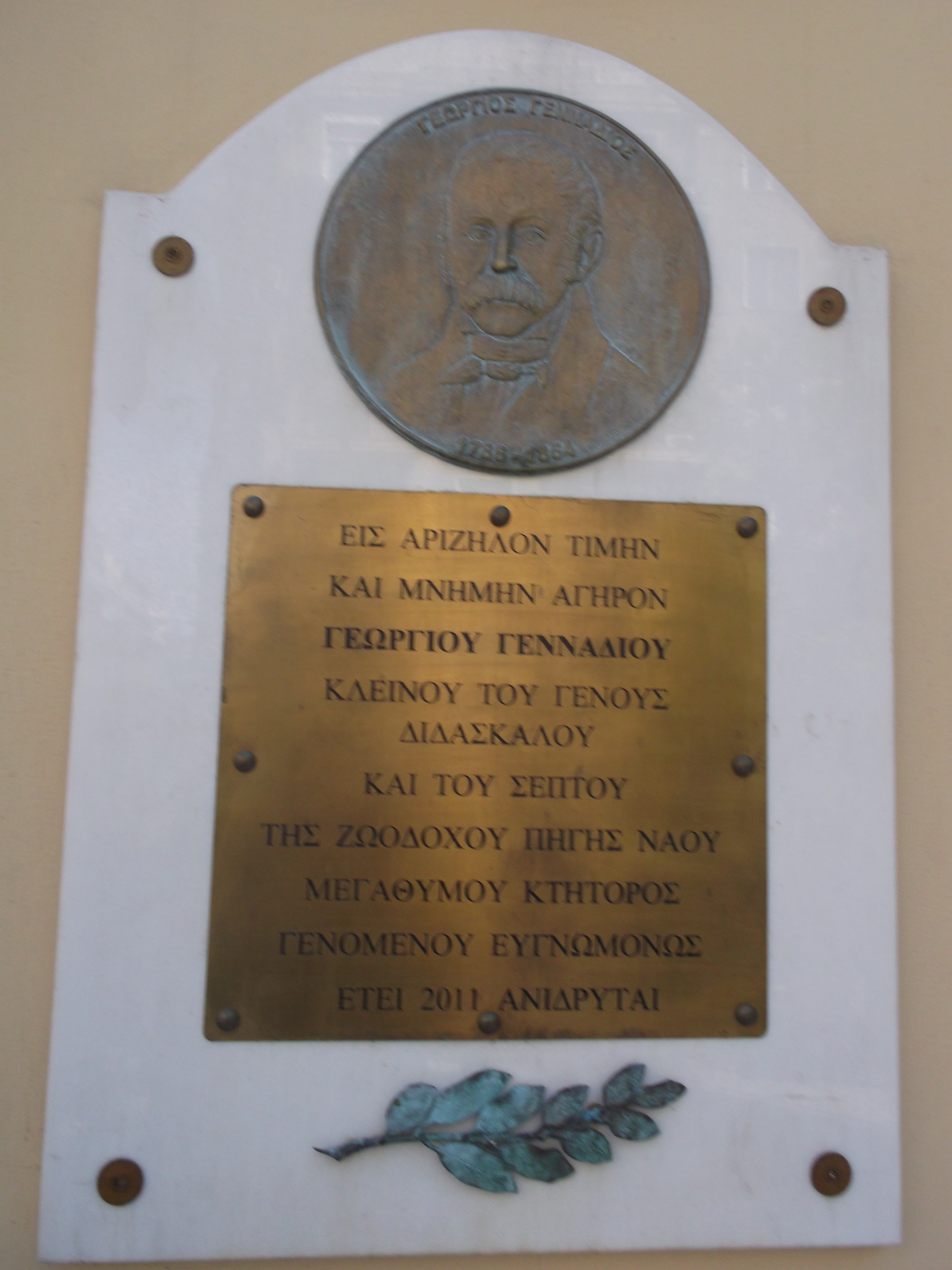 Memorial plate for Gennadios on the church Zoodohou Pihis, Athens